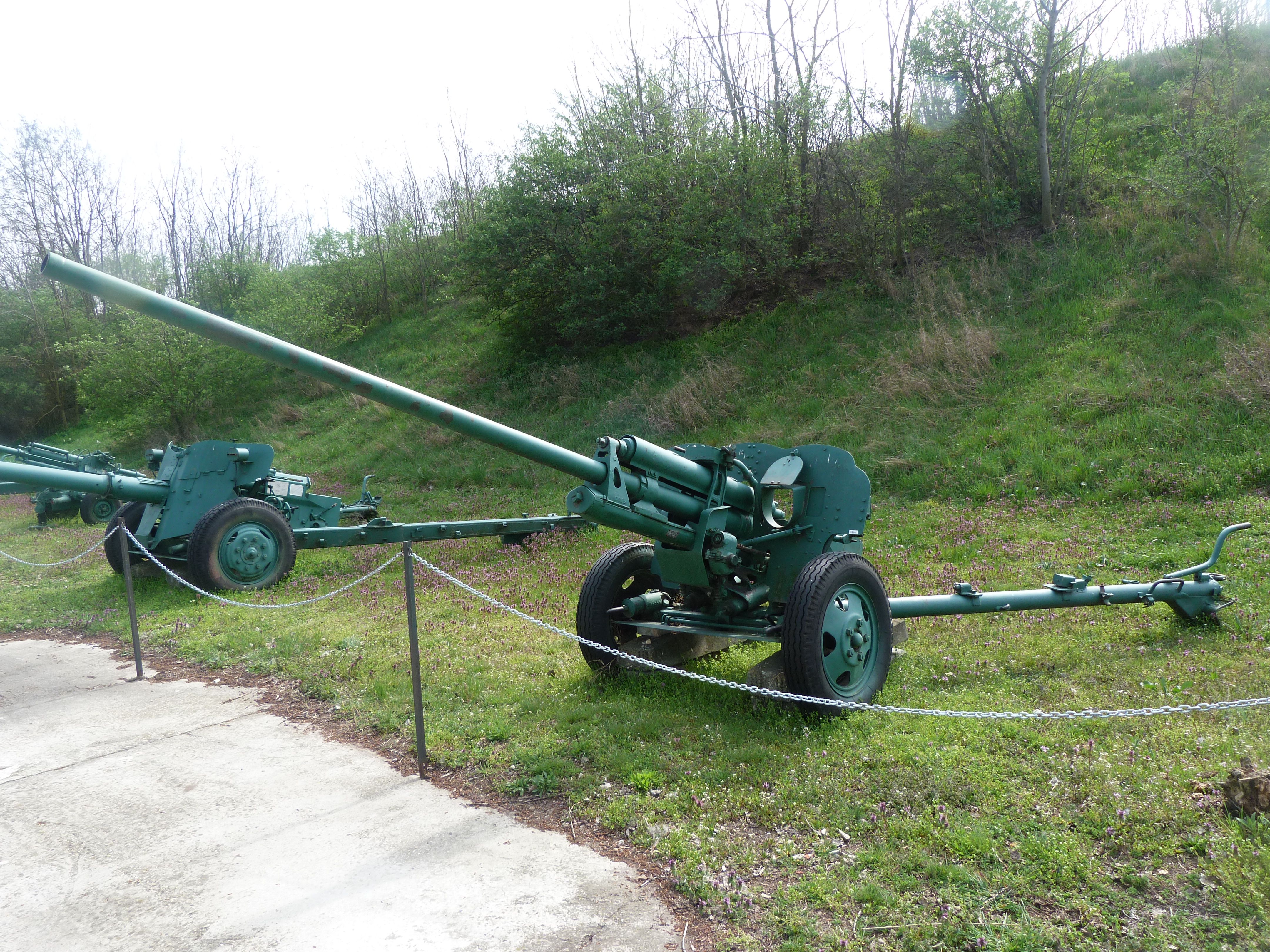 Live on the 31st of March, 2014. Komárom, Hungary. The Monostori Fortress. Open air exibition of the military equipement of the Hungarian People's Army. Photos of the parts and the fortress itself in the Metapolisz DVD line. ©© Derzsi Elekes Andor, Budapest, 2014, You are authorised to use these photos and vids under Creative Commons – even for commercial, for profit purposes. Photos must be attributed to Derzsi Elekes Andor. All of the photos and vids in the Metapolisz DVD line are under Creative Commons and can be used even for commercial – for profit – purposes. Recommended Citation Derzsi Elekes Andor: Metapolisz DVD line